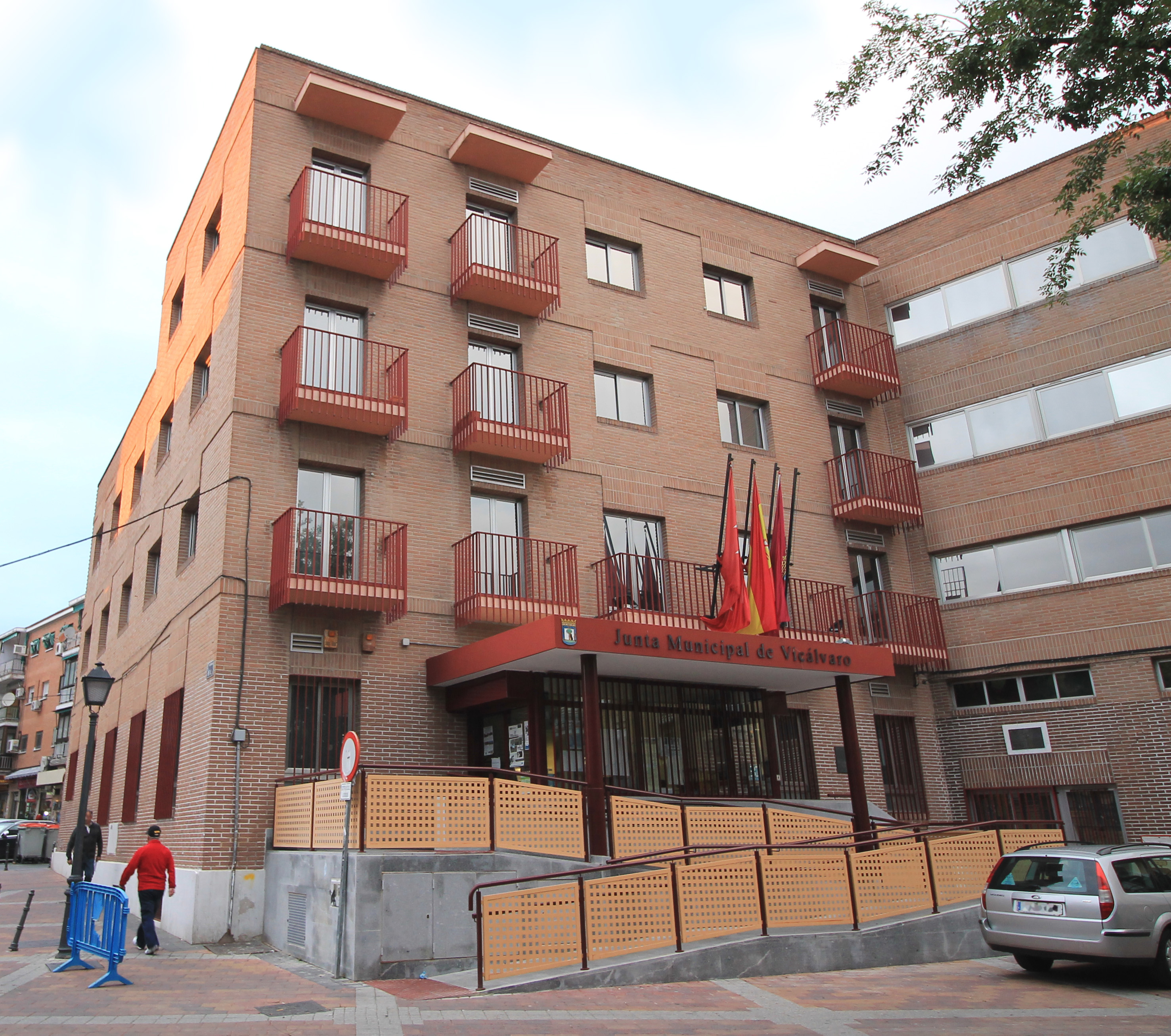 View of Vicálvaro District Hall in Madrid (Spain).